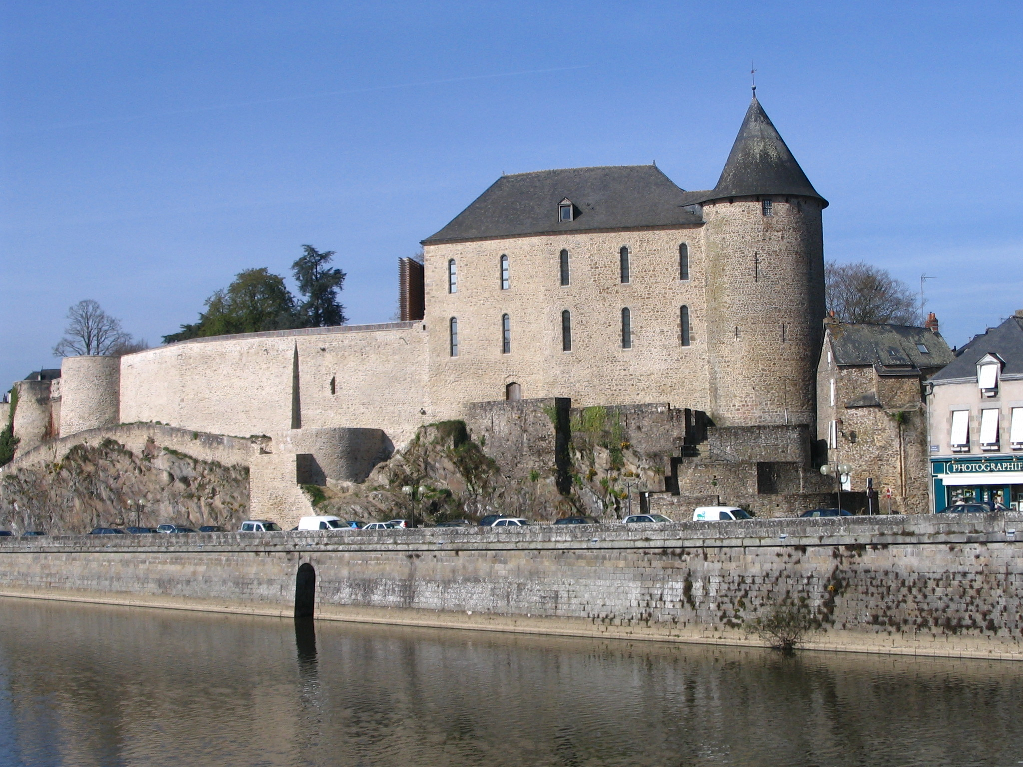 The castle of Mayenne, Mayenne, France.